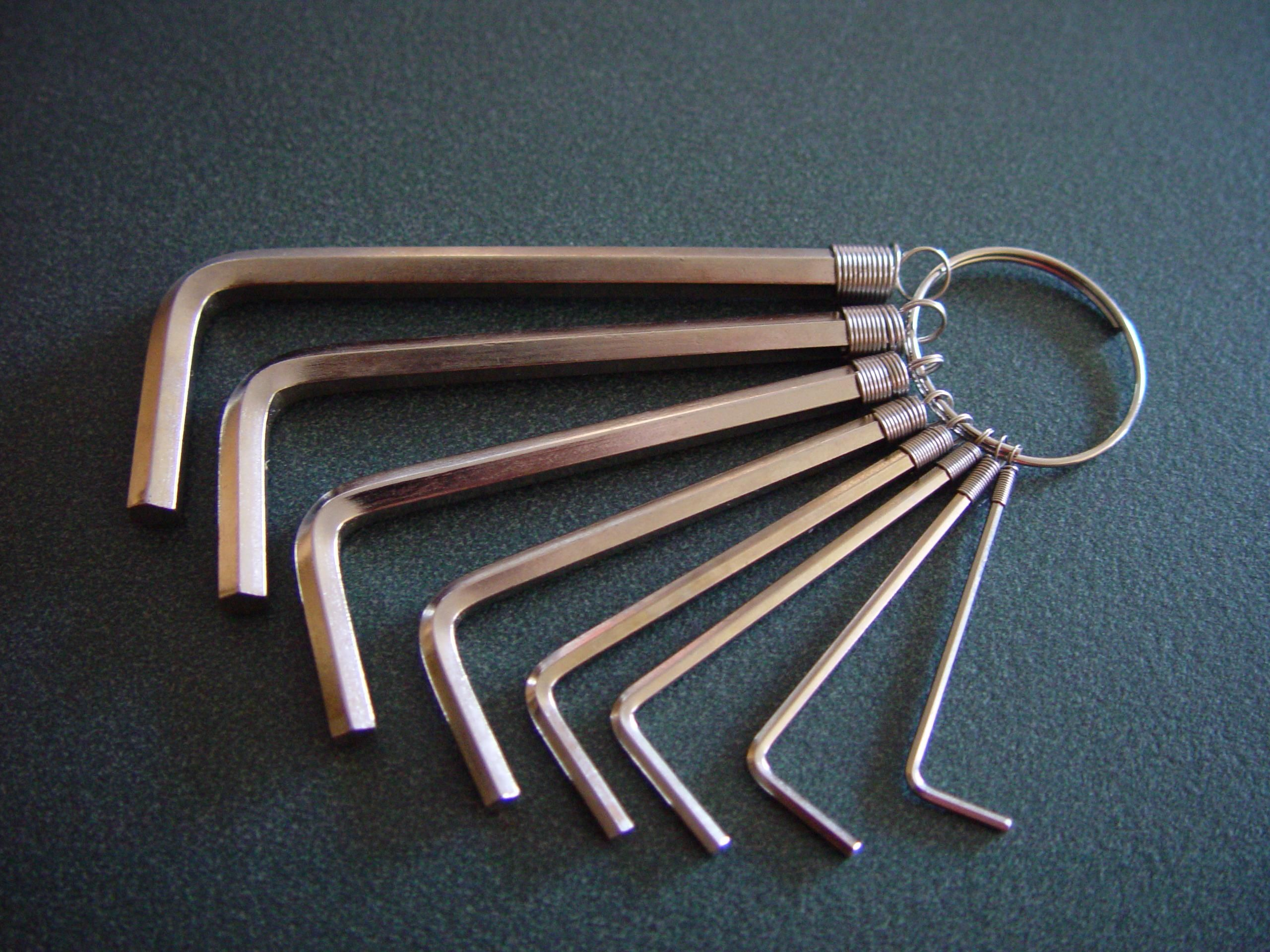 Image title: Set of eight hex allen keys on ring on table Image from Public domain images website